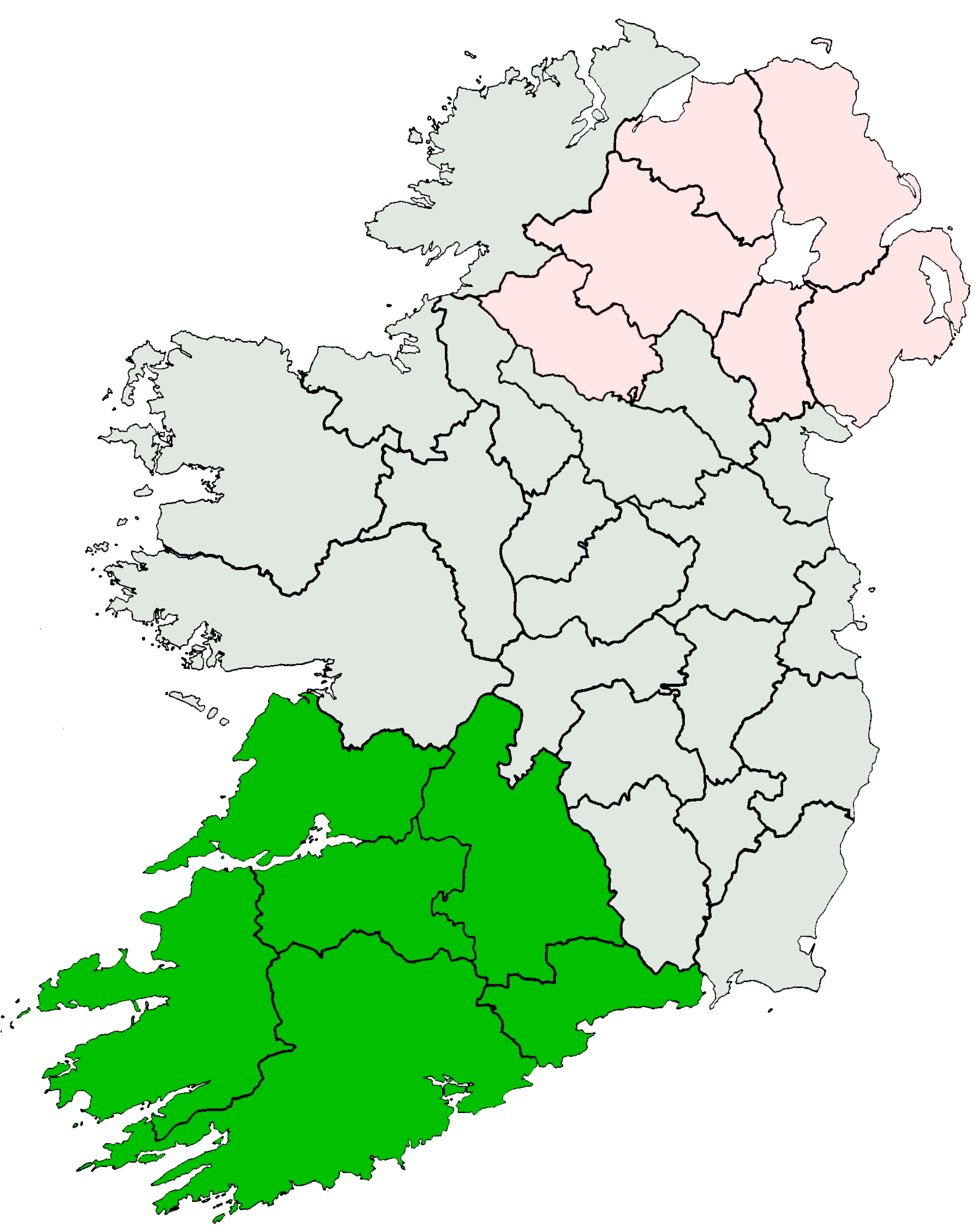 Munster highlighted on an outline map of Ireland.